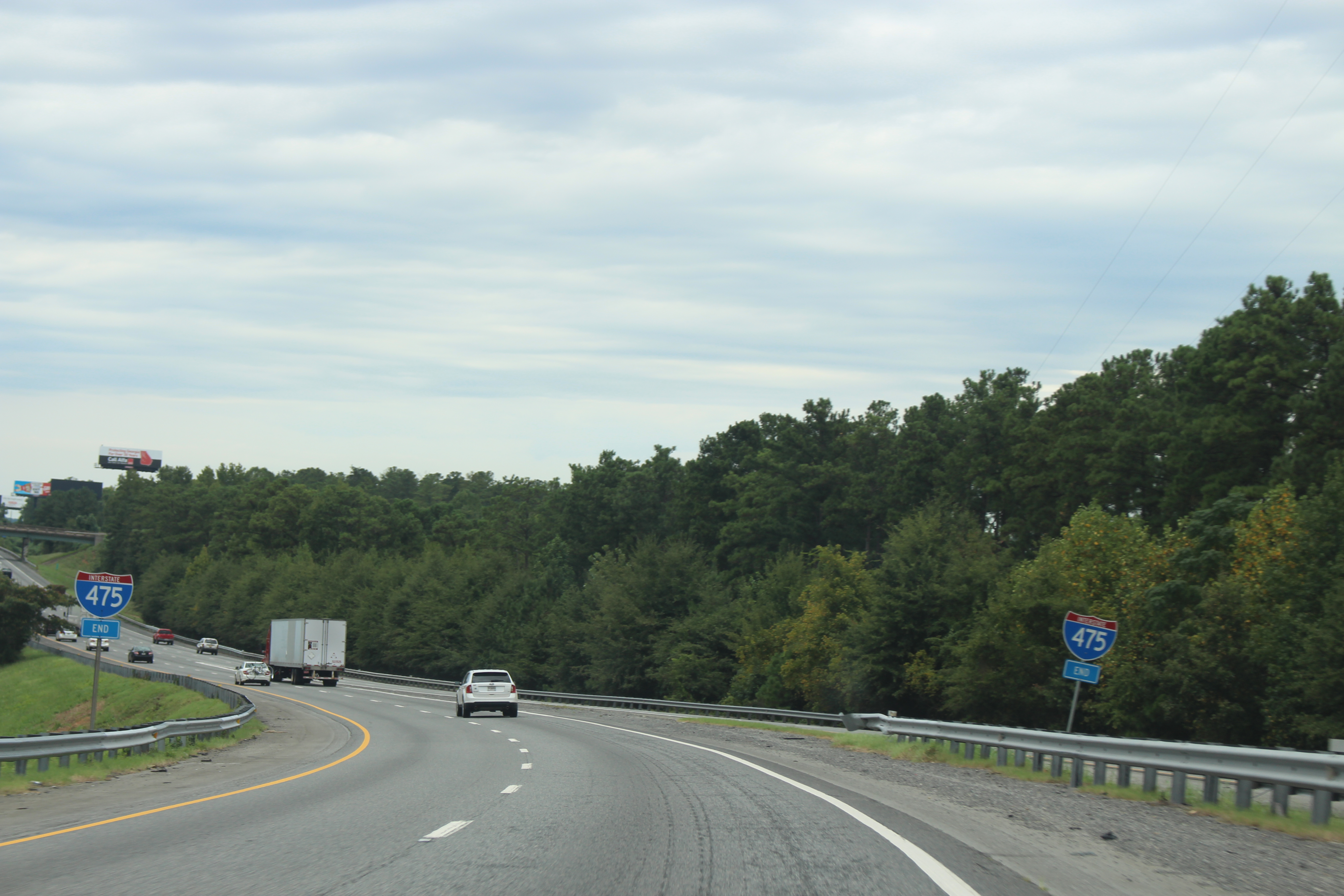 Georgia I475nbb End, Monroe County, Georgia